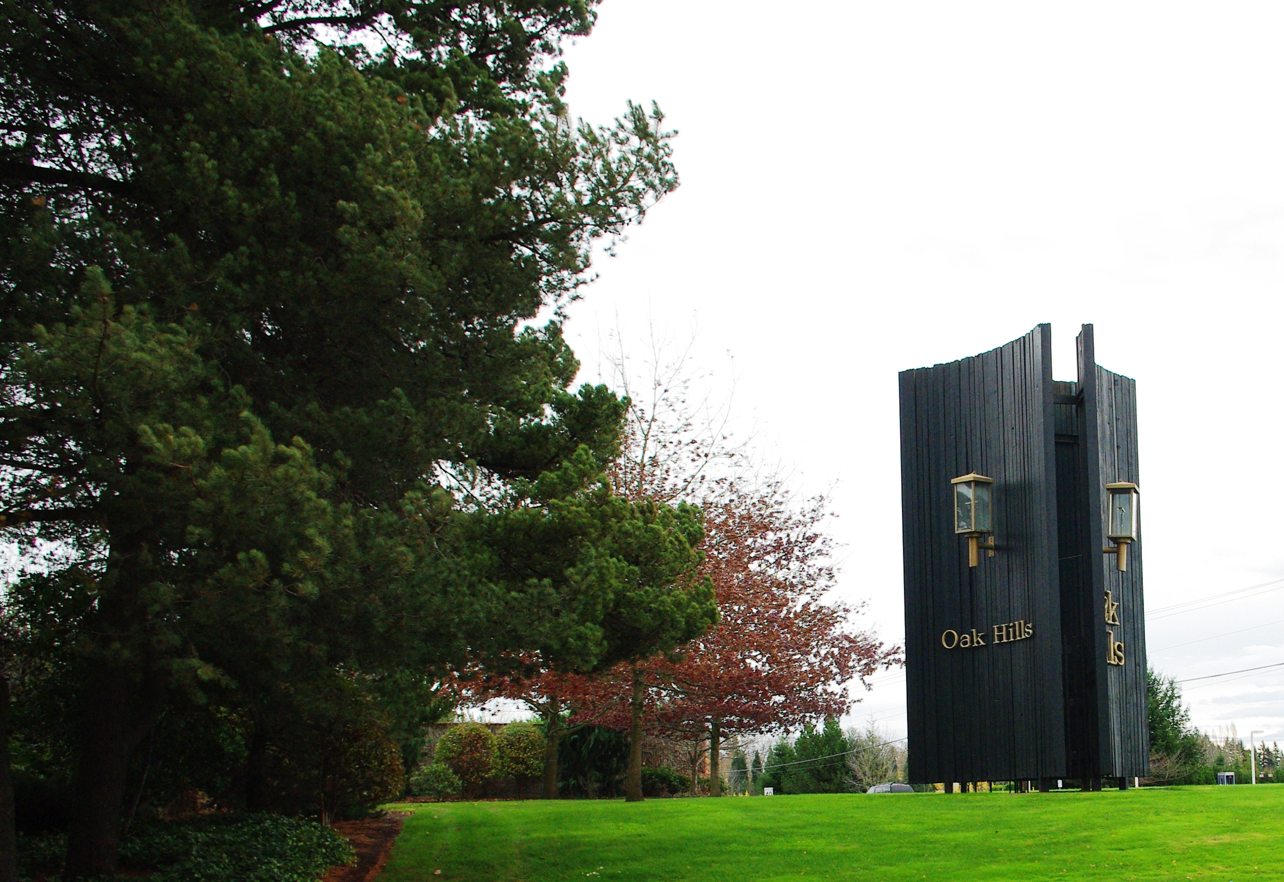 Entrance sign to the private Oak Hills development.